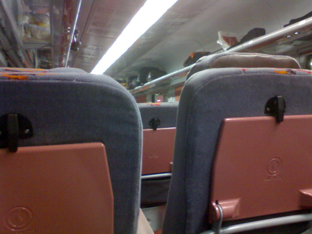 Interior of Shatabdi Express AC 1st coach